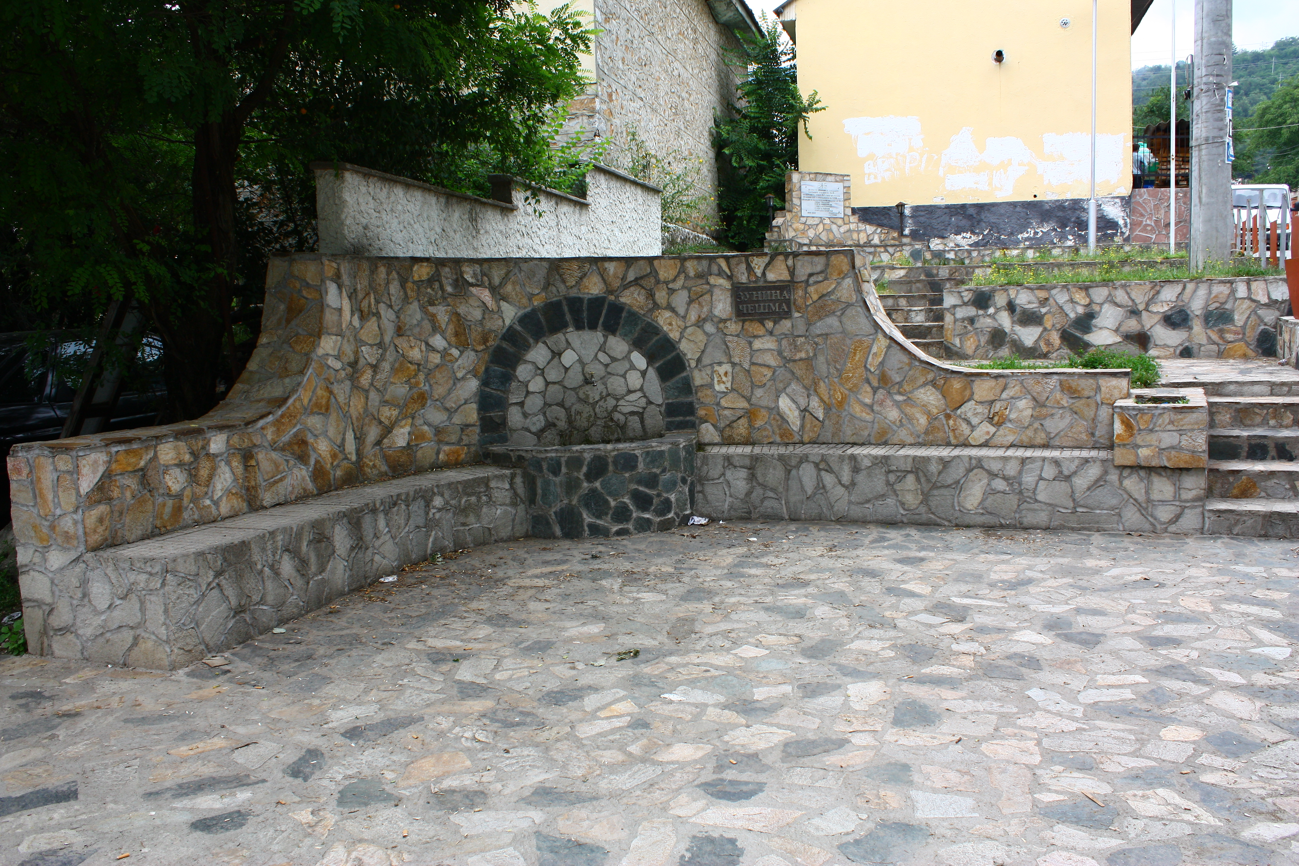 Zuna's fountaine, Zubovce, Macedonia